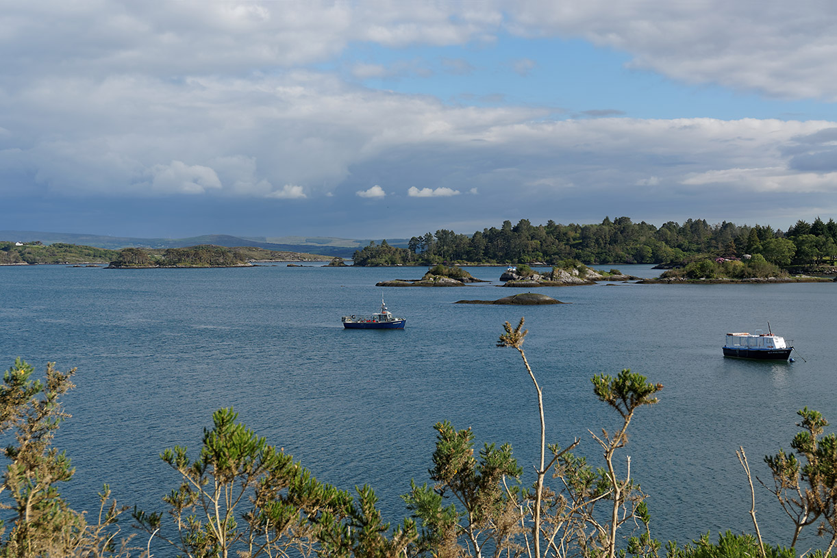 Glengarriff Habour in Bantry Bay, County Cork, Ireland